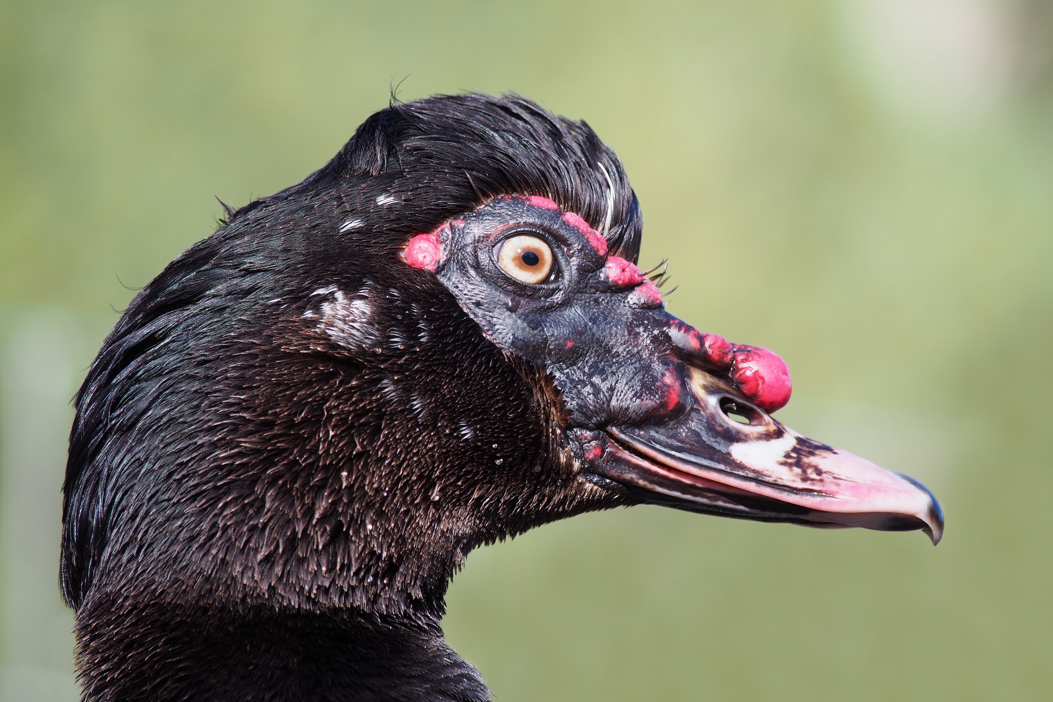 Muscovy duck, Cairina moschata, Martin Mere, UK